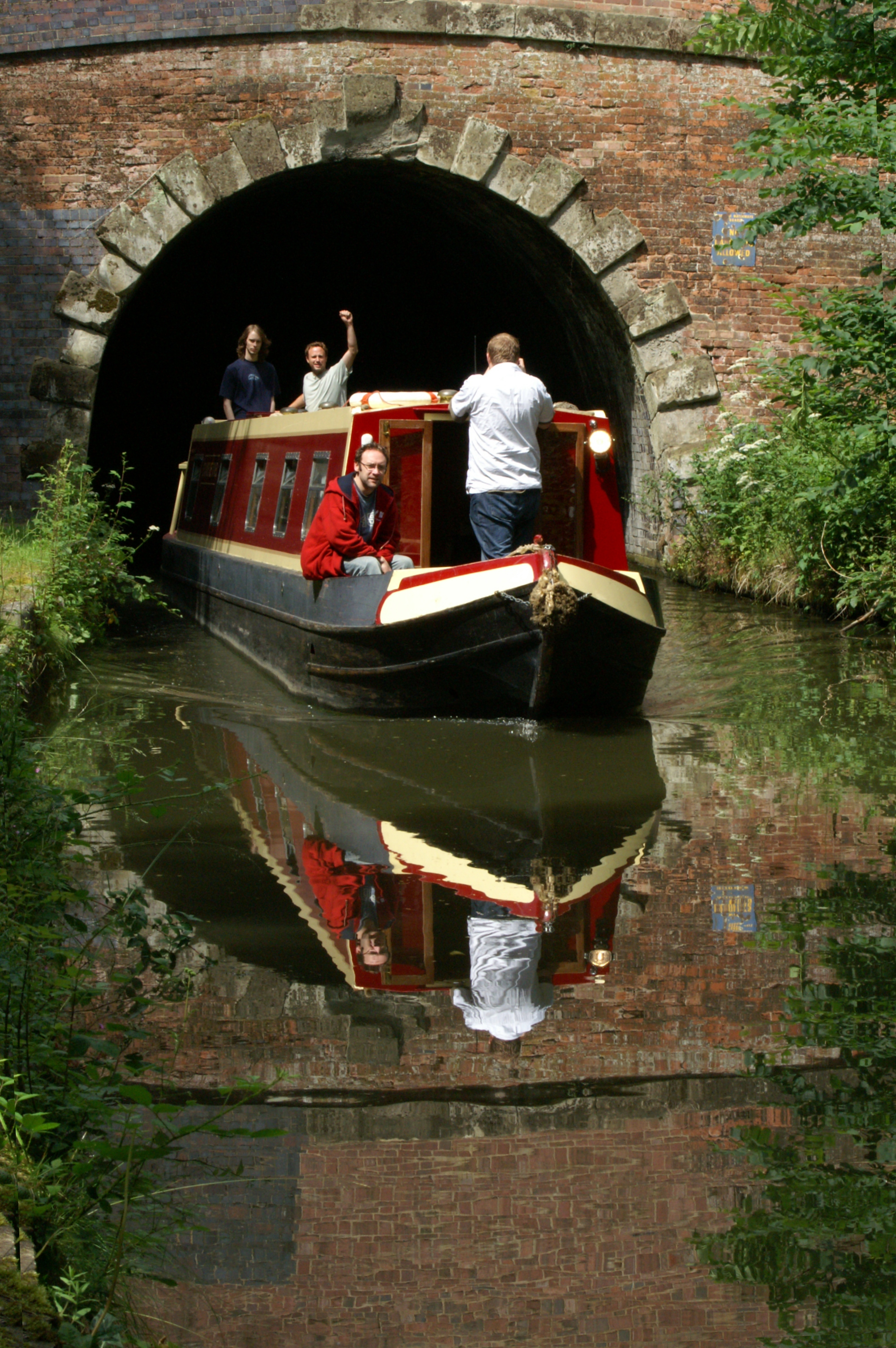 Grand Union Canal, near Daventry, Northamptonshire